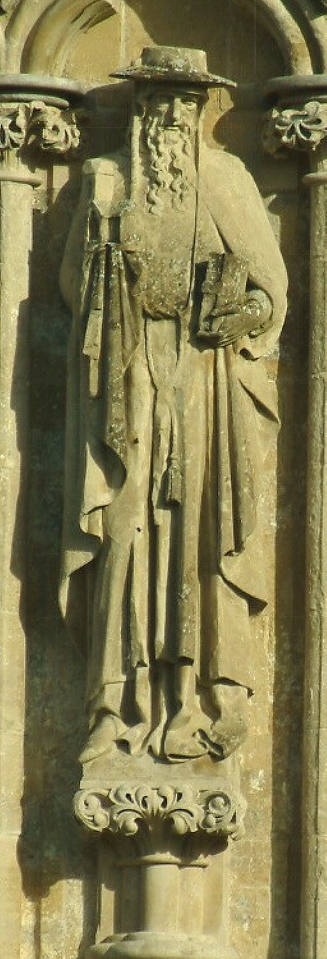 A statue of St. Jerome on the West Front of Salisbury Cathedral, UK.